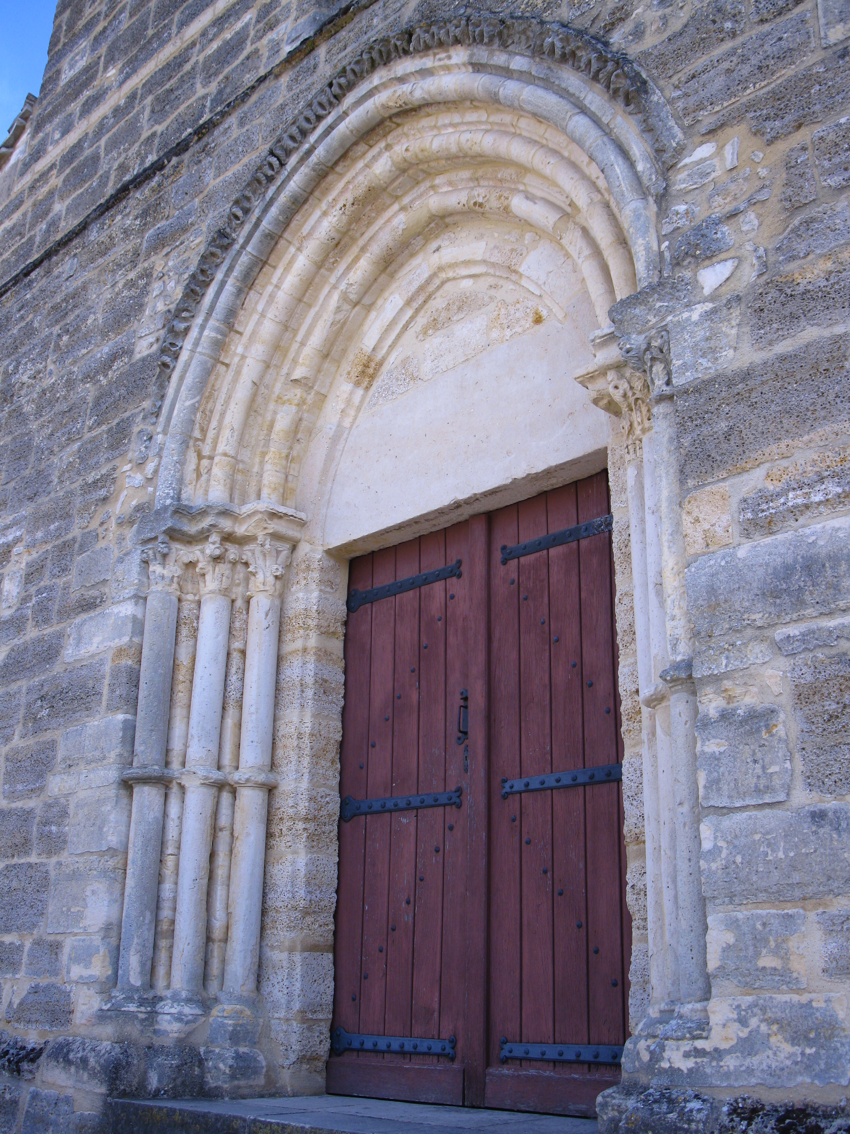 Portal of the Saint-Laurent church, in Ville-en-Tardenois (France, 51)